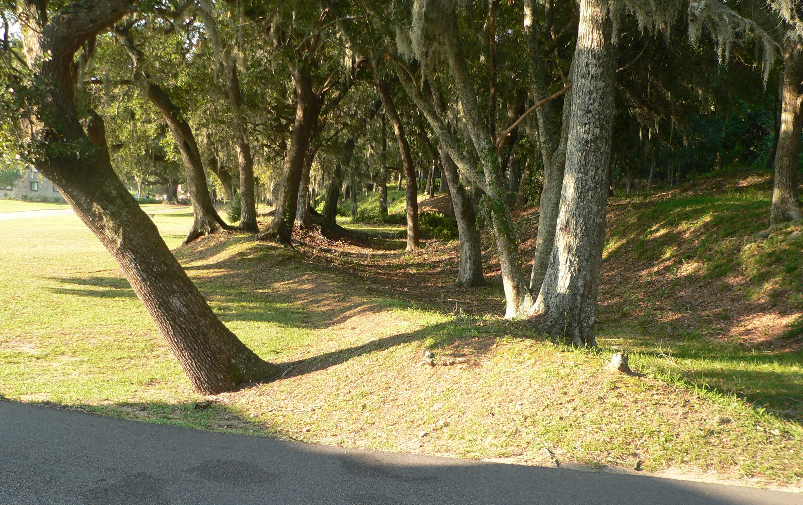 Battery White, located on Winyah Bay south of Georgetown, South Carolina. The photo shows the front of the earthworks; the bay is out of sight to the left.